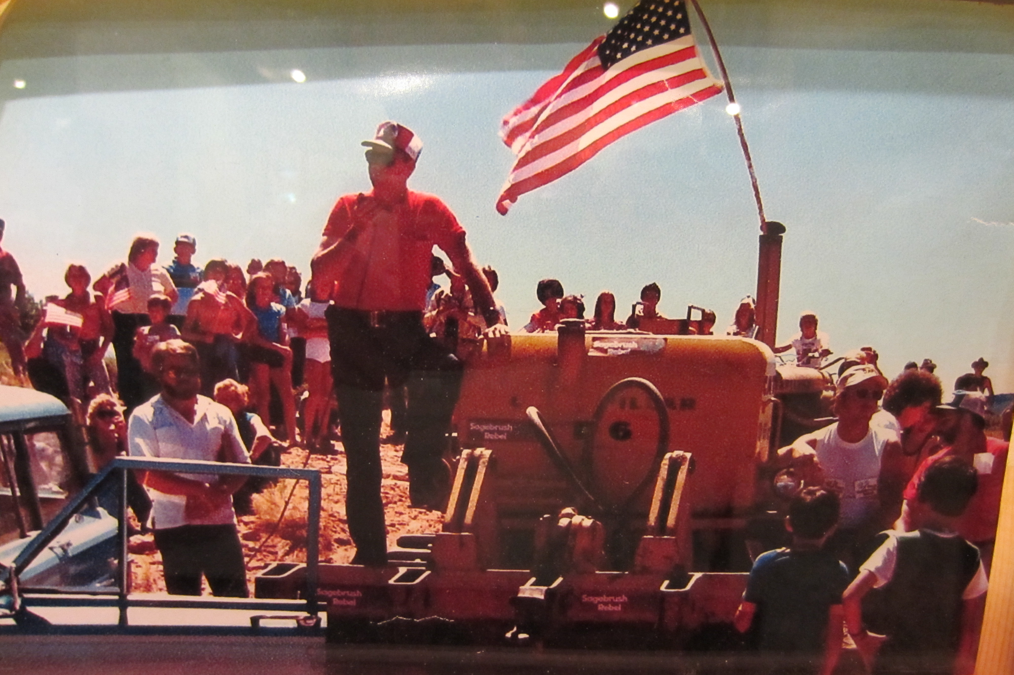 Sagebrush Rebellion July 4th, 1980 Grand County Utah